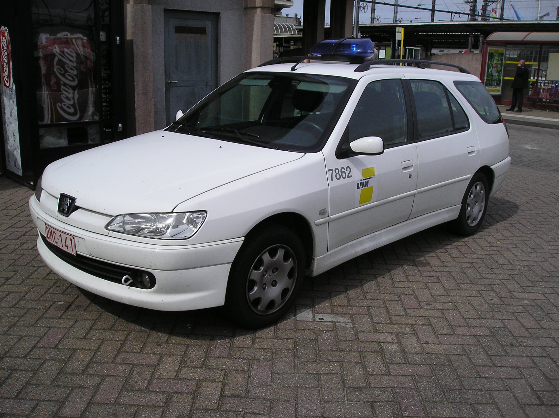 De Lijn service automobile near Ostend tram and bus station.